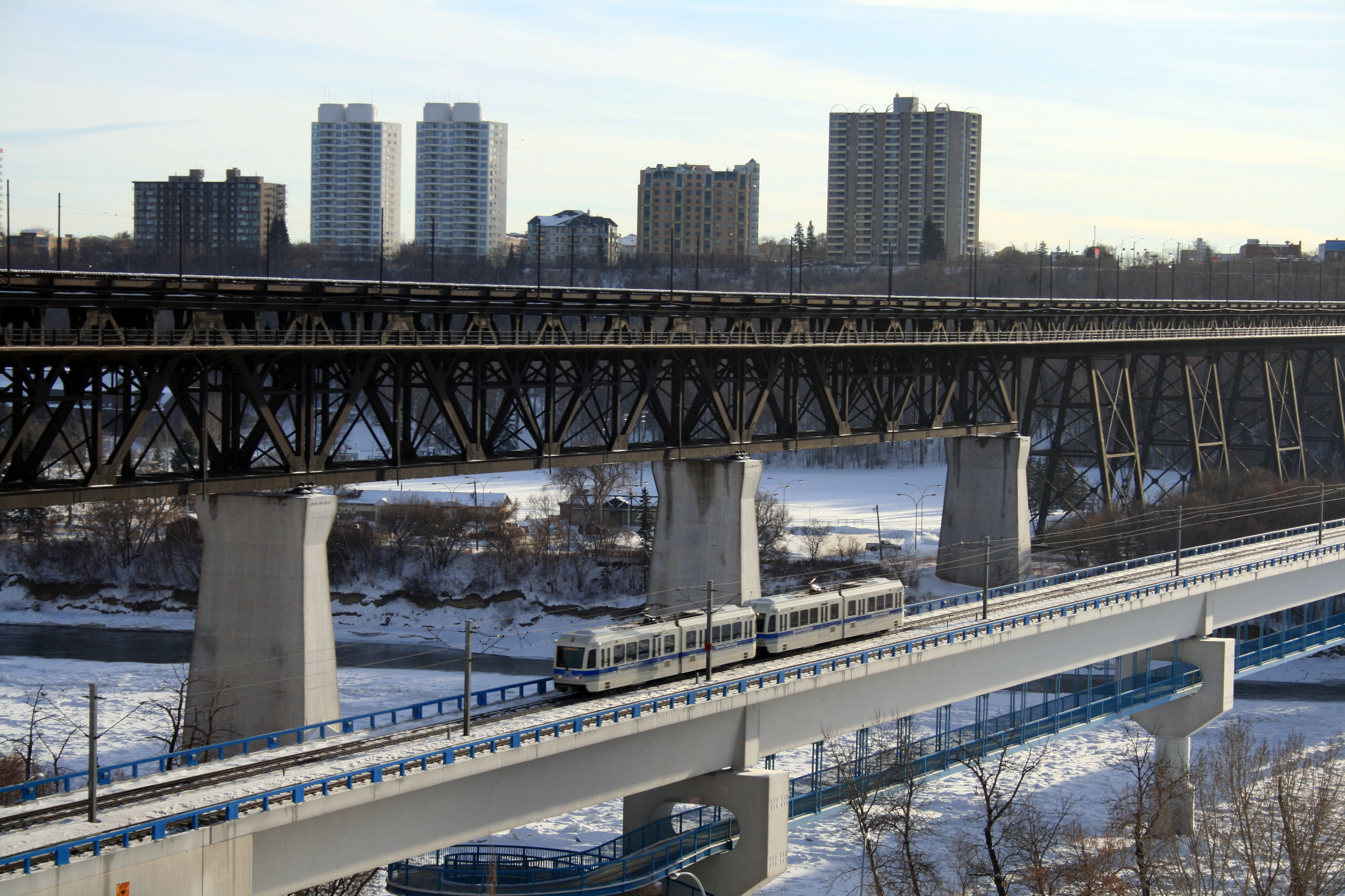 An LRT Train crossing the North Saskatchewan River, Edmonton